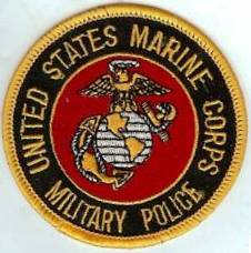 United States Marine Corps, Military Police shoulder patch